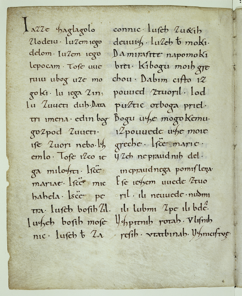 Facsimile of Freising Manuscripts, page 7.